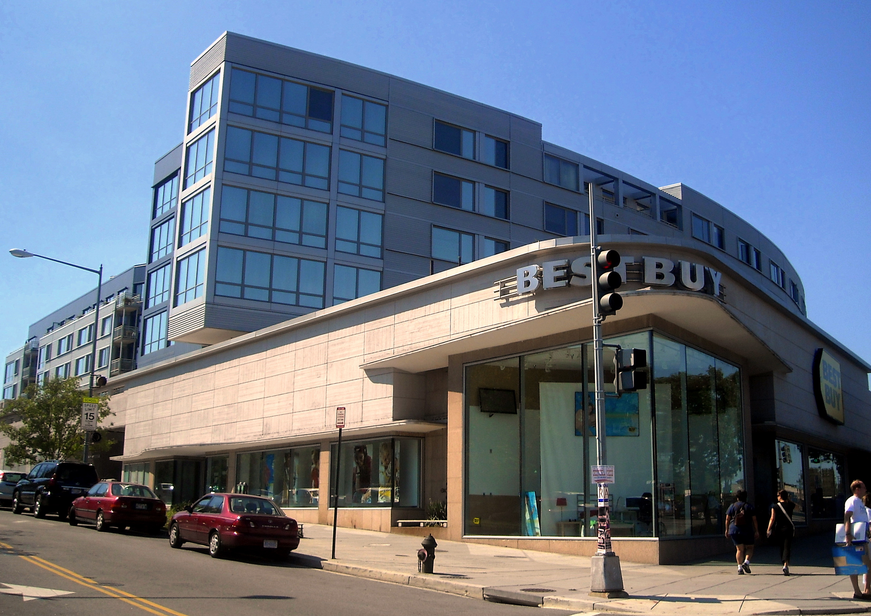 Former location of the Sears, Roebuck and Company Department Store located at 4500 Wisconsin Avenue, NW in the Tenleytown neighborhood of Washington, D.C. The Moderne building, now occupied by Best Buy and other retailers, was designed by John Stokes Redden and John G. Raben in 1941. It was added to the National Register of Historic Places on February 16, 1996.